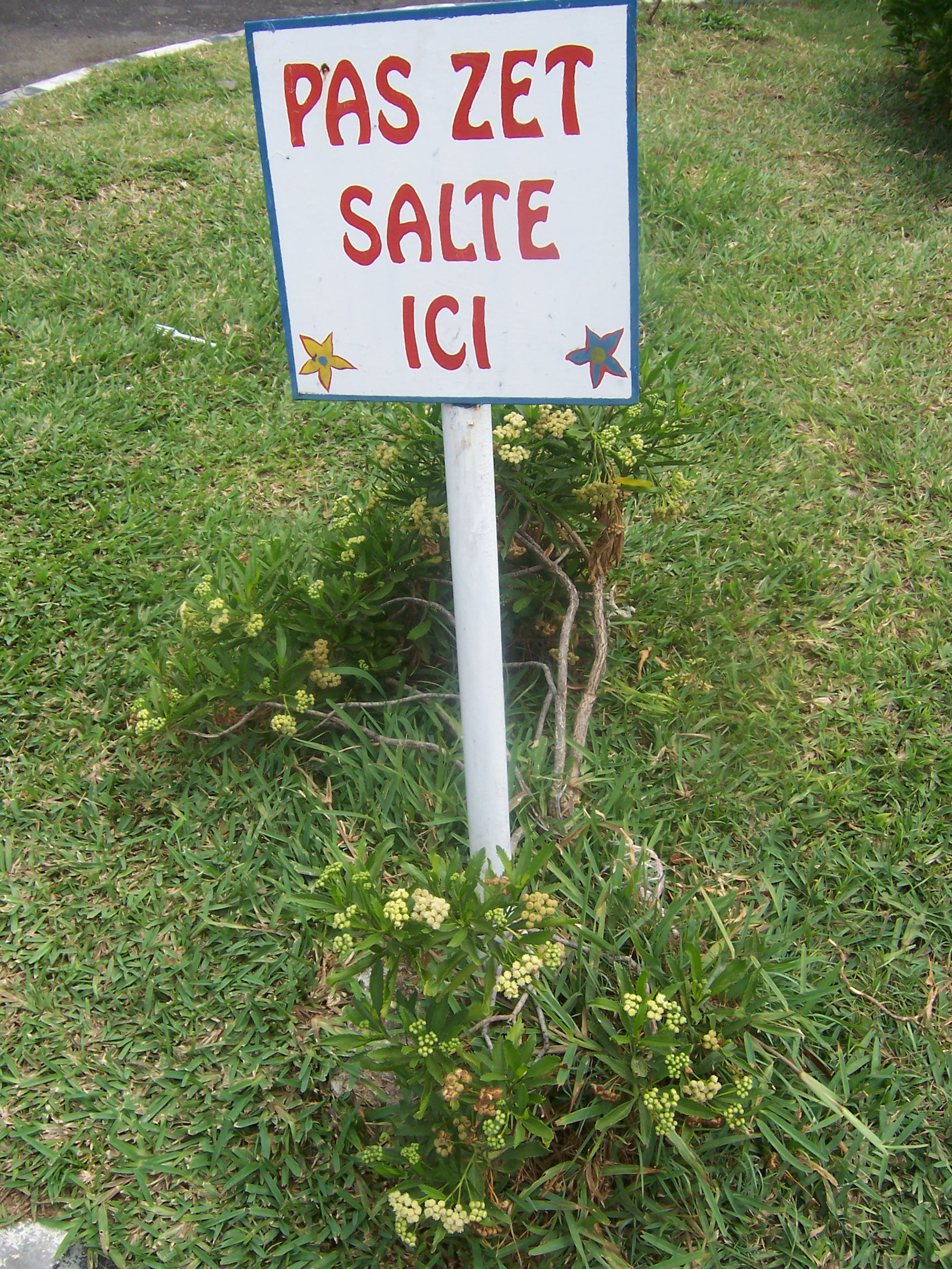 Public warning in creole language on Rodrigues island in Port-Mathurin(pas zet salte ici : don't throw any litter here), the plant is Psiadia retusa